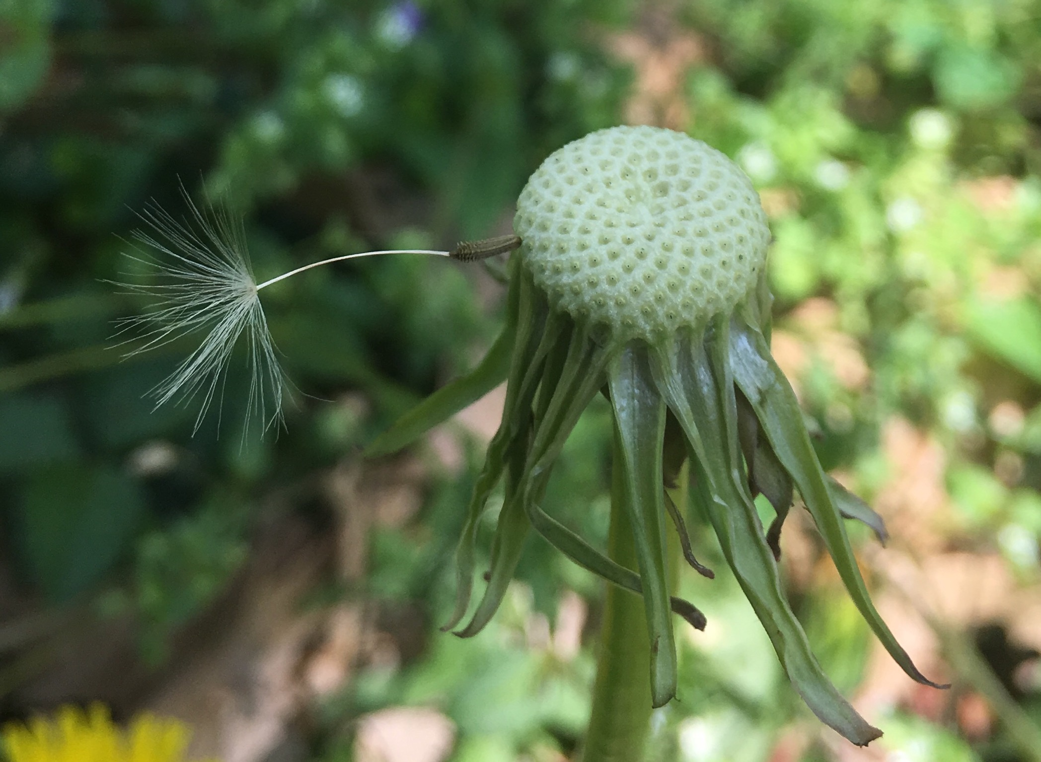 Sigh. What the title says is good enough. I don’t have to type an essay for every single thing I upload on here, geez.